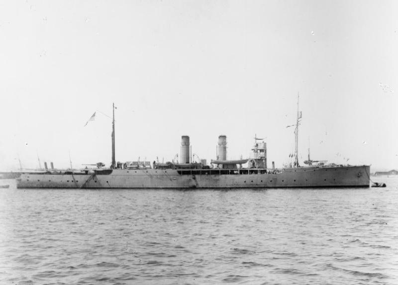 Photograph of British Arabis class minesweeping sloop HMS Wisteria.